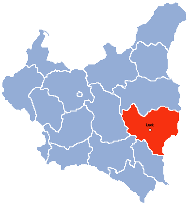 Volhynian Voivodeship (1921-1939)